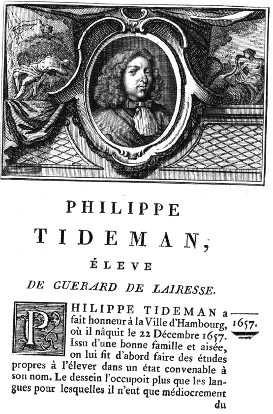 Book 3 of 4-volume painter biographies by Jean-Baptiste Descamps